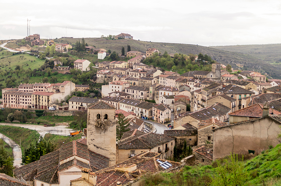 Sepúlveda. Conjunto histórico.